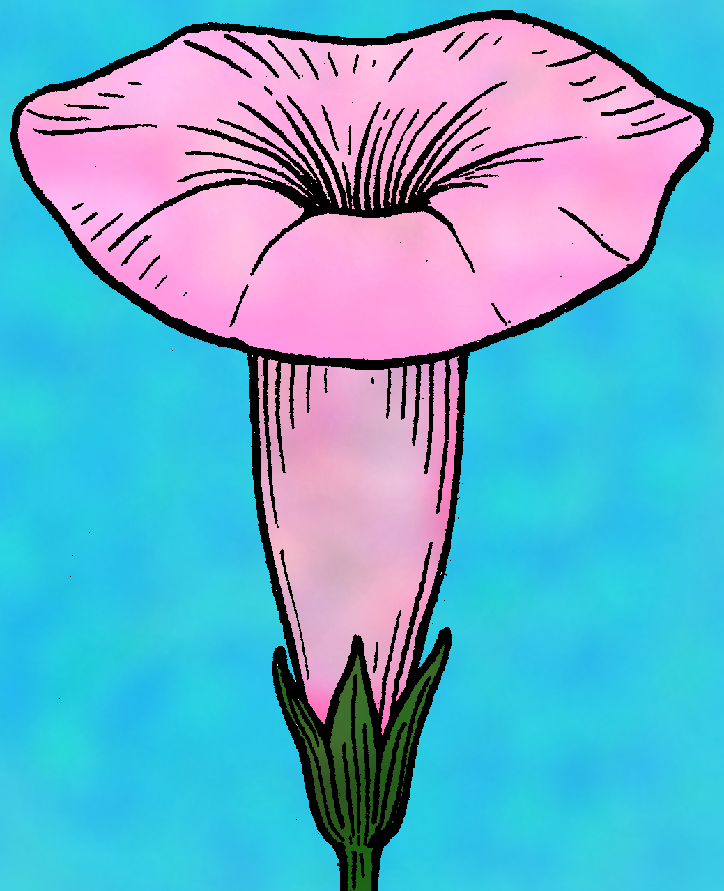 A colored drawing of a sympetalous flower, a flower in which the petals are fused.